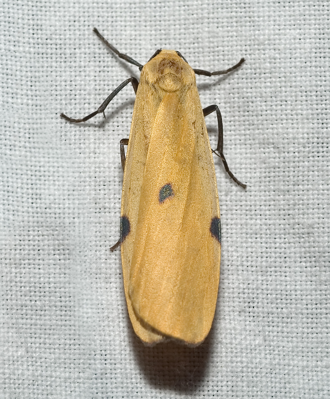 Please report references to kulacgmx.at.